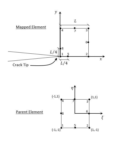 fdgsdfgs